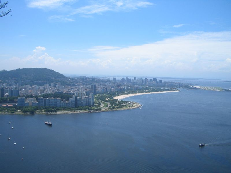 Flamengo's Beach - Rio